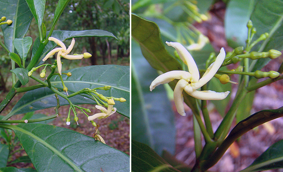 Also known as T. longipes. A White Milkweed shrub on Bastimentos Island, Panama. In context at